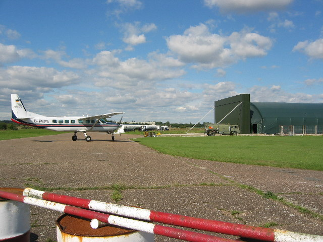 Langar Airfield, Leicestershire. A British Parachute School plane returning after dropping about 12 parachutists. The old airfield stretches across six squares and is used for various activities.